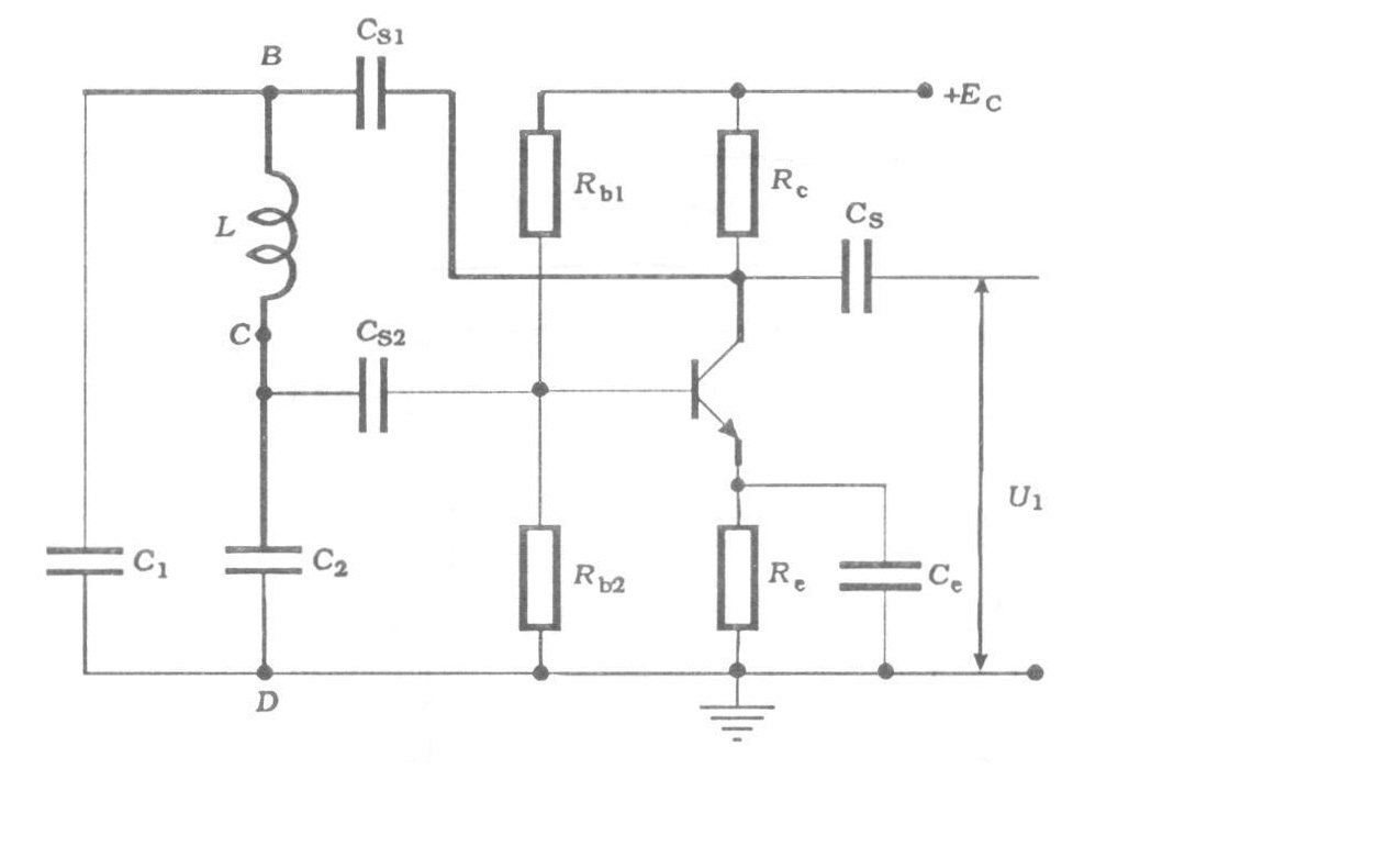 Electronic Oscilator Circuit